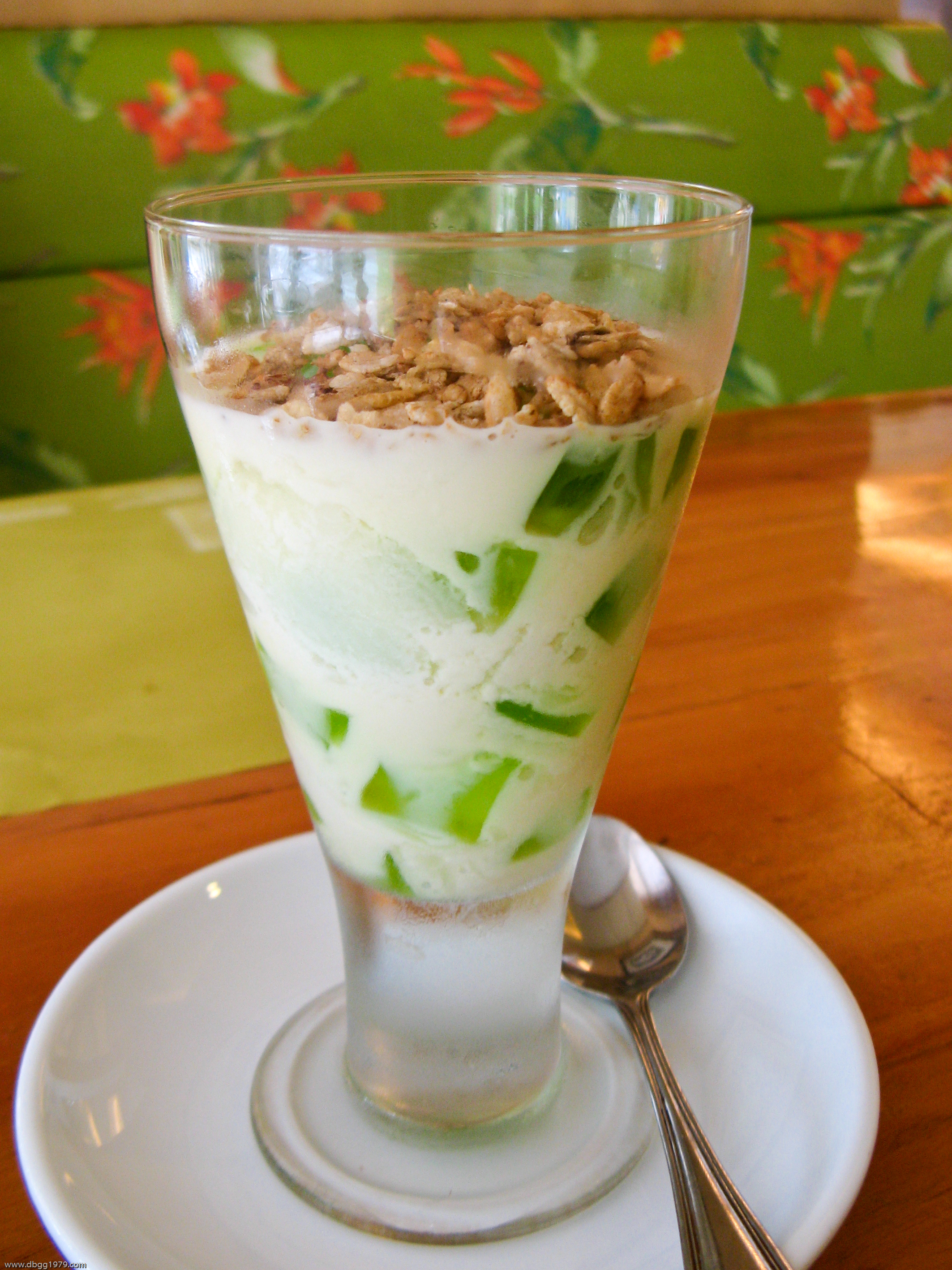 Buko pandan at Cafe Laguna, SM City, Cebu